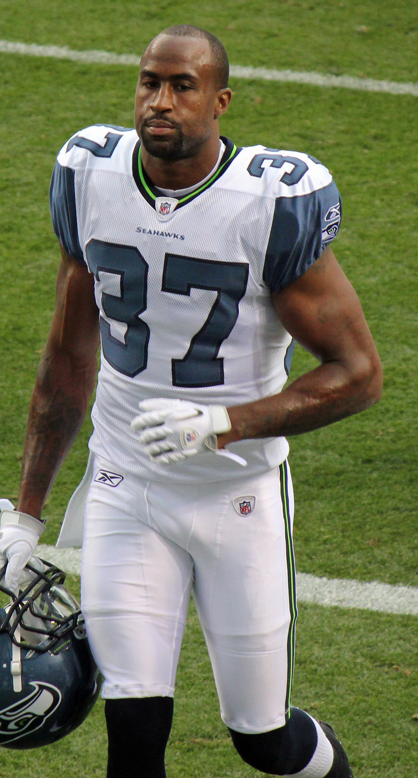 Brandon Browner, a player on the National Football League.